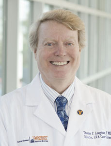 Photo of Thomas P. Loughran, Jr., American Physician scientist who specializes in cancer research and treatment